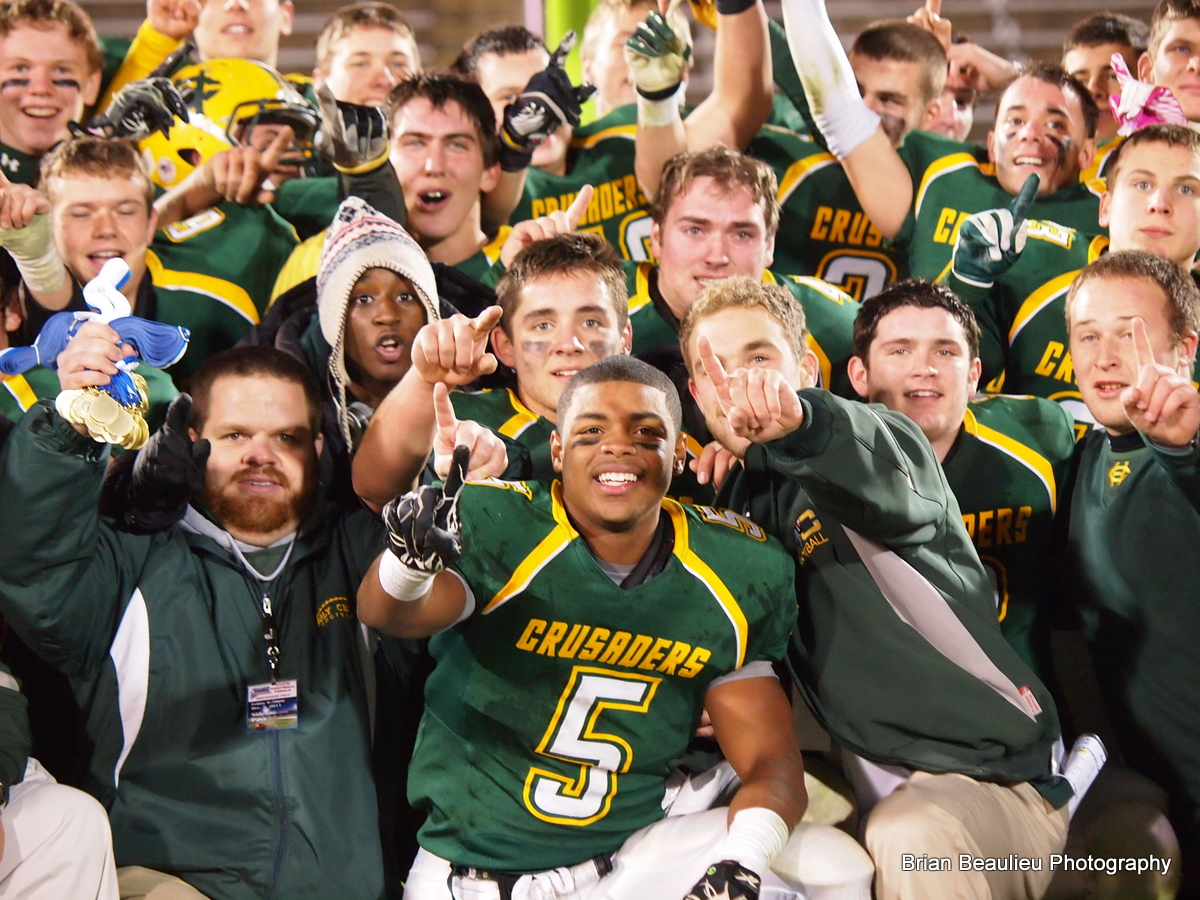 Taken at Rentschler Field after 34-27 win over Cromwell Photo by BBeaulieuPhotos